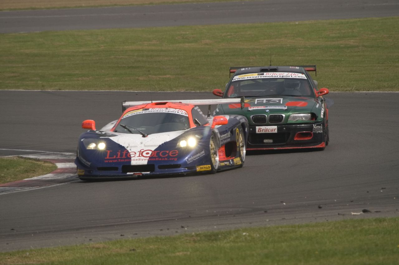 A Mosler MT900R leading a BMW at the BritCar 24 Hours at Silverstone Circuit